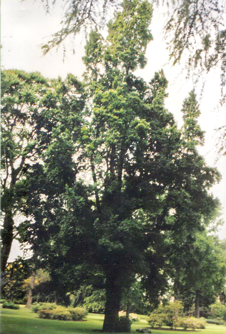 Edinburgh RBG, Elm Collection 1989, Specimen Tree 2; Habit